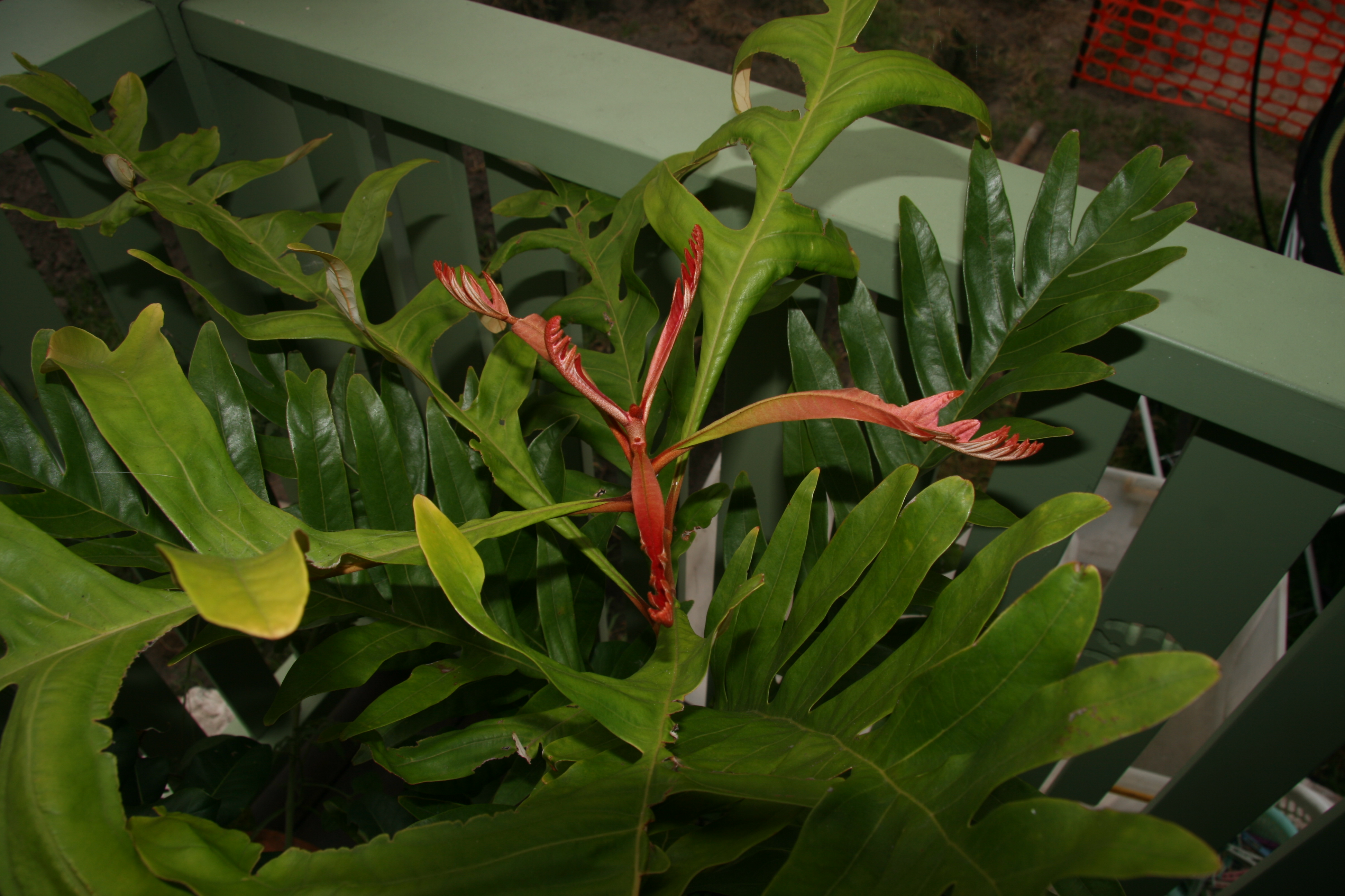 Musgravea heterophylla (as pot plant) with lobed immature leaves